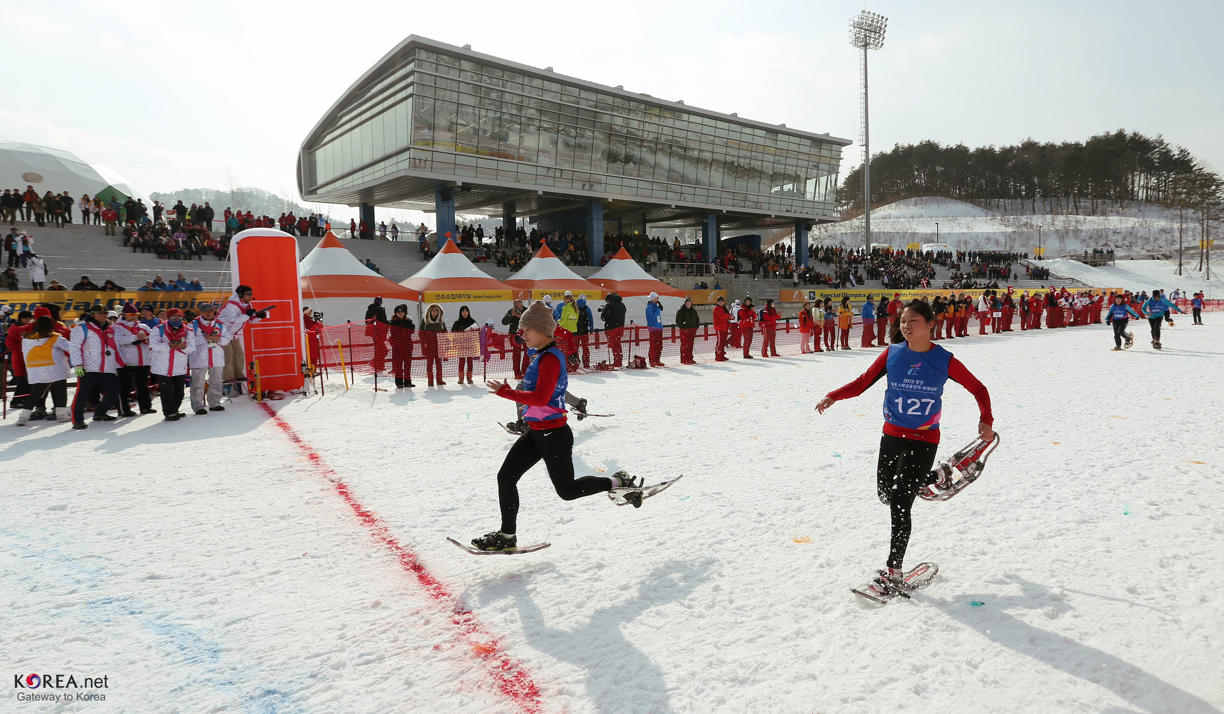 2013 PyeongChang The Special Olympics World Winter Games First Day SnowShoeing PyeongChang, Gangwon-Do 2013.01.30. Ministry of Culture, Sports and Tourism Korean Culture and Information Service Jeon Han 2013 평창 동계 스페셜올림픽 세계대회 대회 1일, 스노우 슈잉 경기 평창, 강원도 문화체육관광부 해외문화홍보원 코리아넷 전한